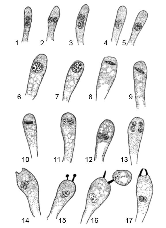 Development of basidia in the mushroom Amanita bisporigera G.F. Atk.